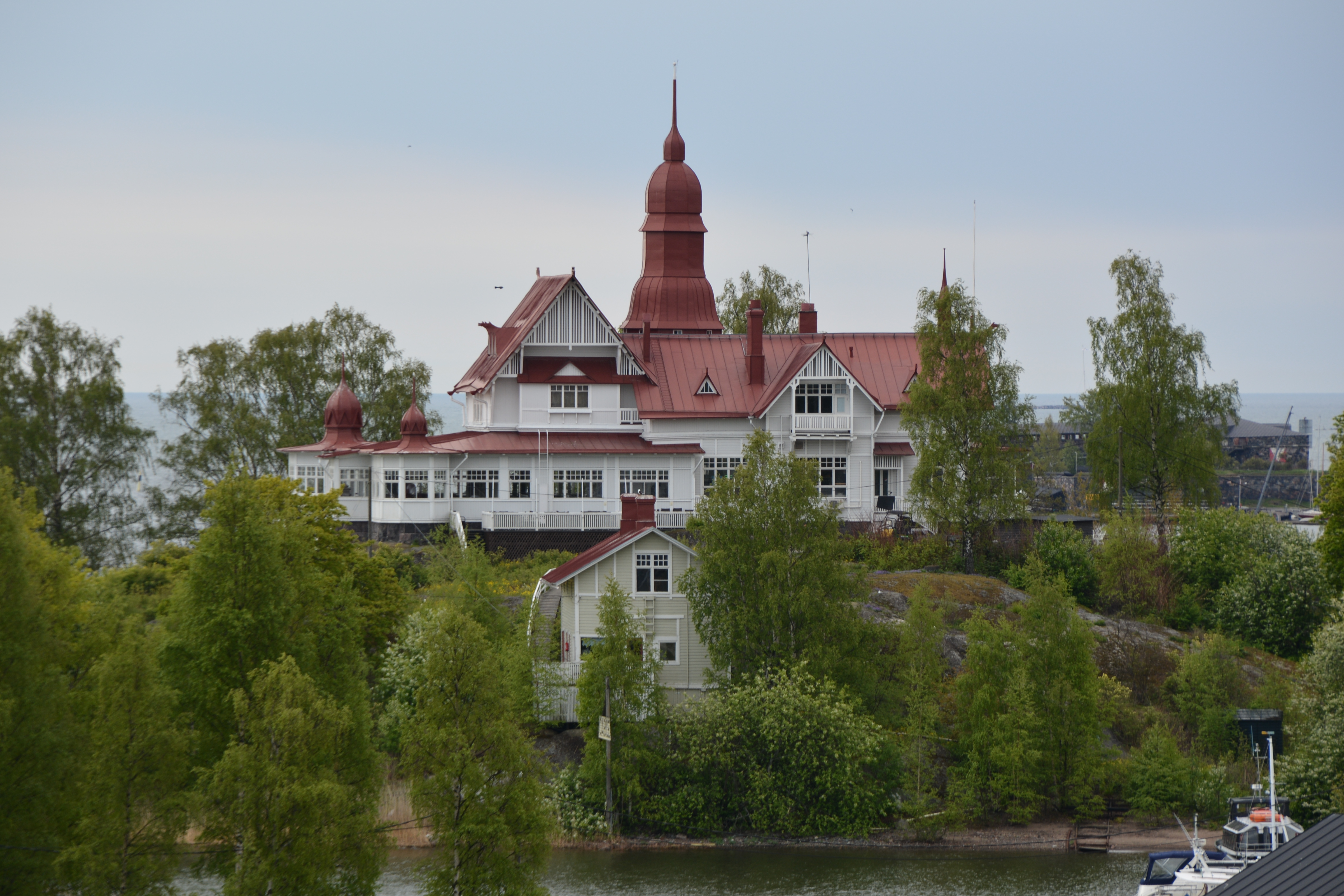 Klippan, Helsingfors